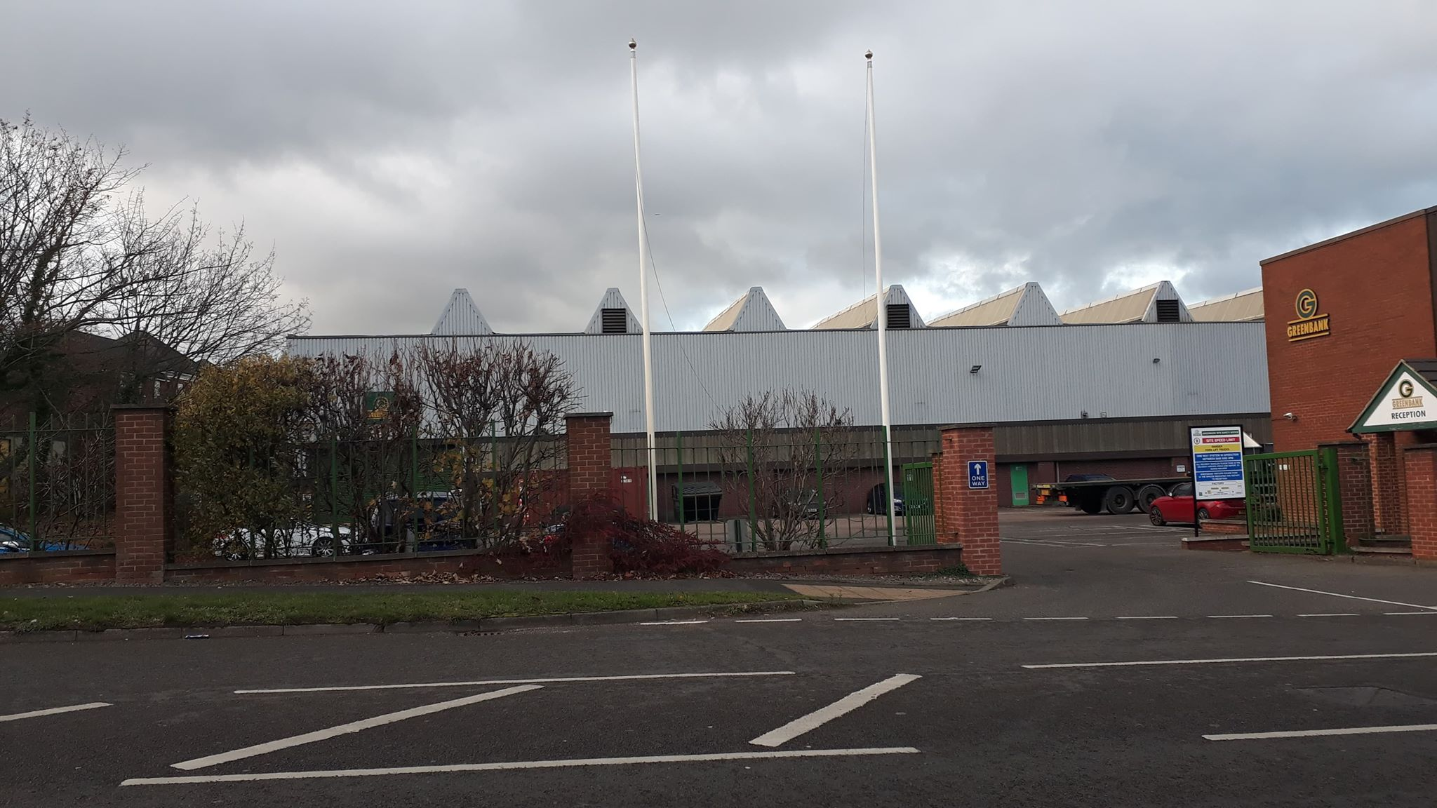 The site is now occupied by an industrial estate but the former fences of the railway are still visible.